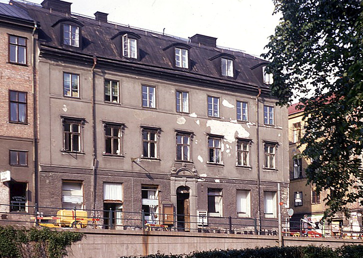 Hornsgatan 34, Fasaden mot Hornsgatan och Hornsgatspuckeln från Maria kyrkogår